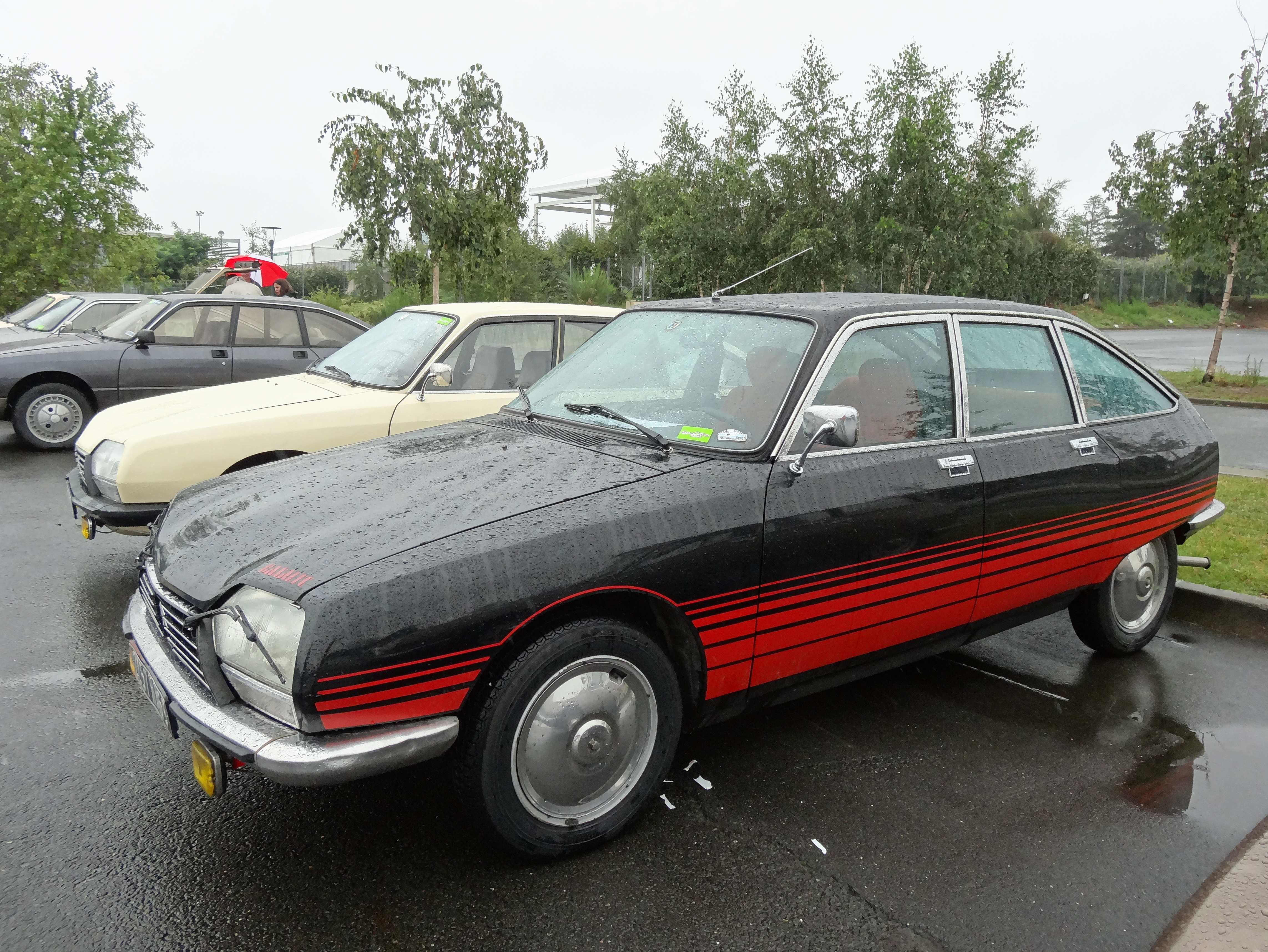 Citroën GS